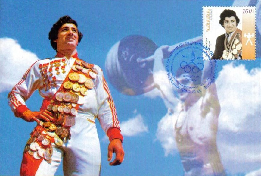 Yurik Vardanyan 2010 stamp